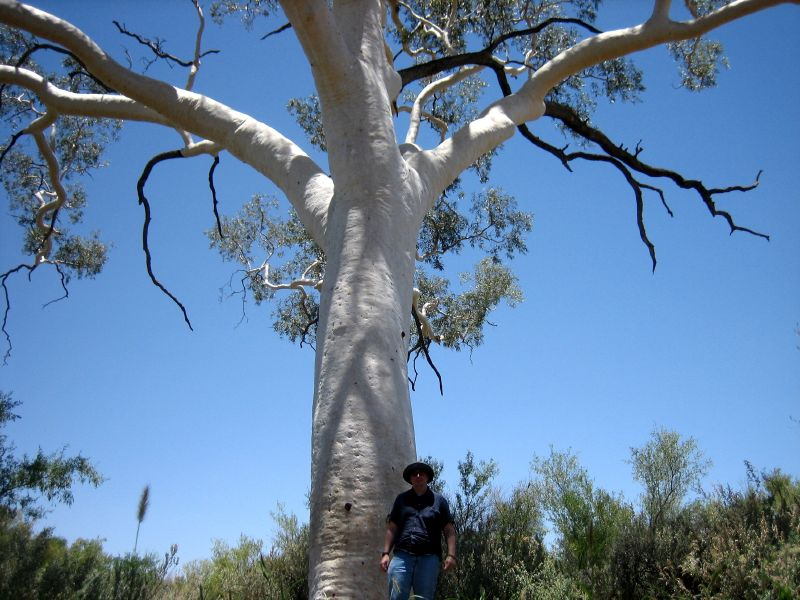 Ghost Gum (Corymbia aparrerinja), Trephina Gorge, Northern Territory, Australia, cf. [1].